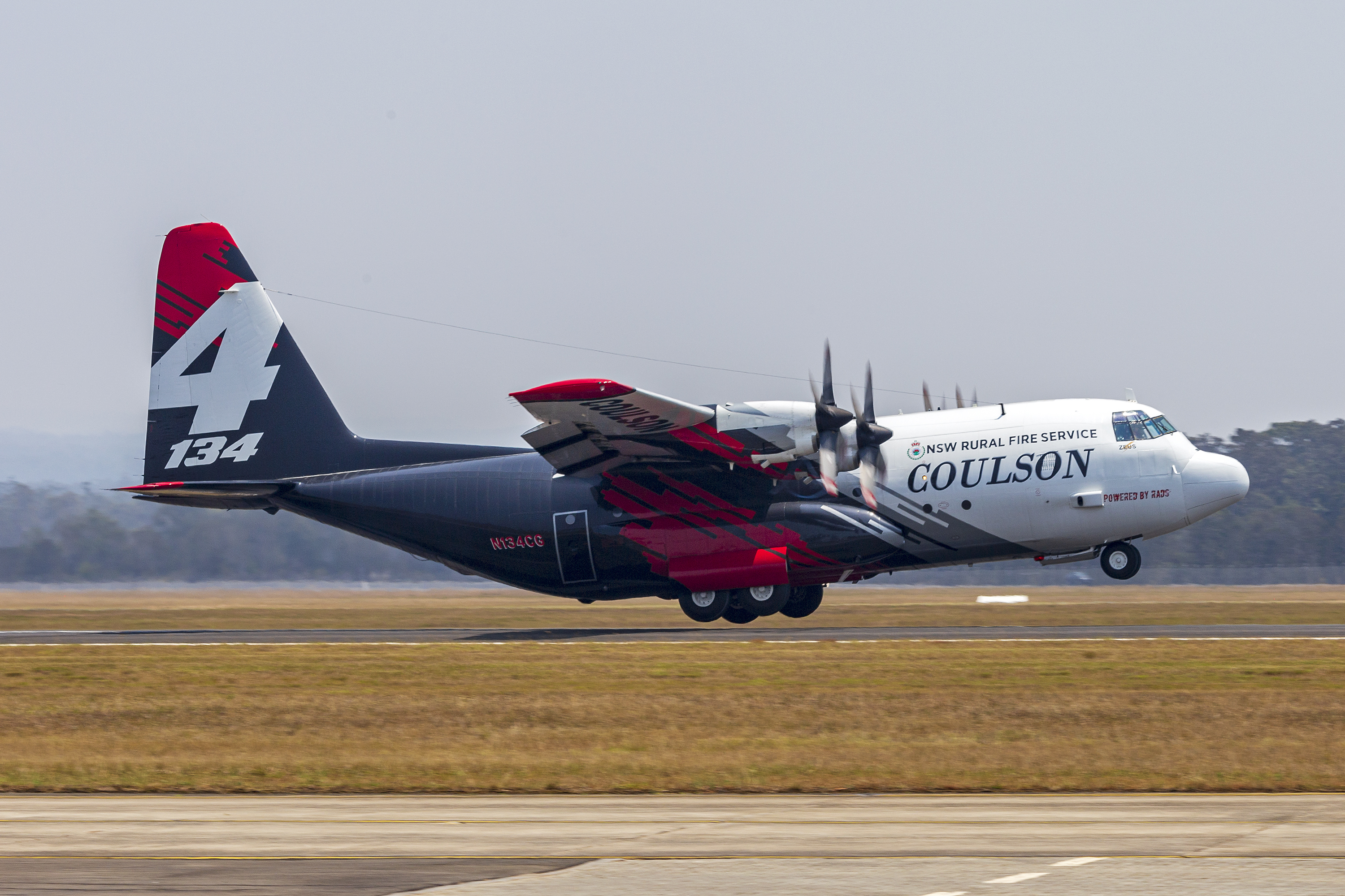 Coulson Aviation (N134CG) Lockheed EC-130Q Hercules departing HMAS Albatross.